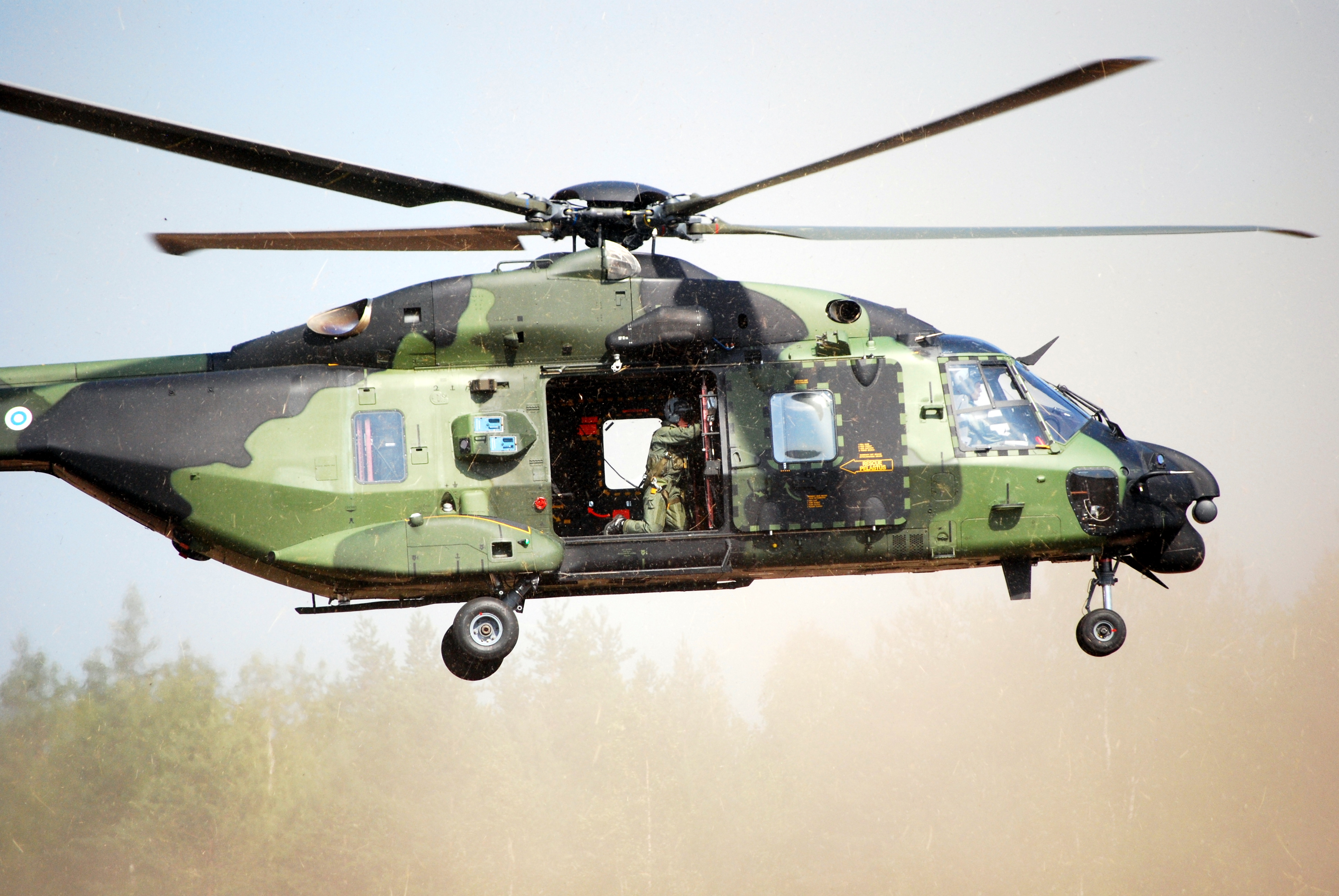 Finnish army NH-90 creates dust storm before leaving for home.